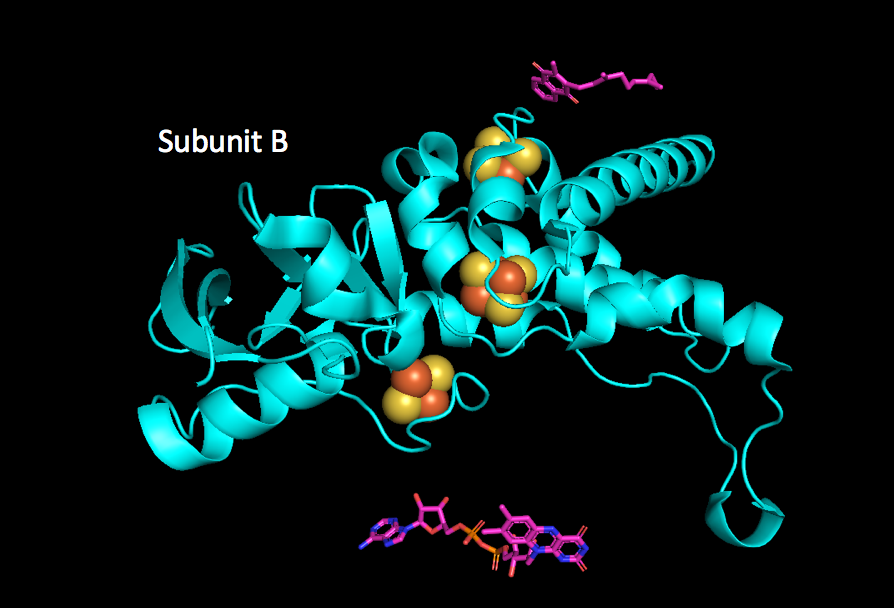 1l0v subunit B with iron-sulfur clusters and nearby FAD and menaquinone molecules.